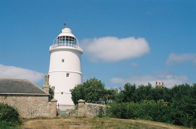 St. Agnes: the lighthouse Right in the centre of St. Agnes is this lighthouse, now a private dwelling.